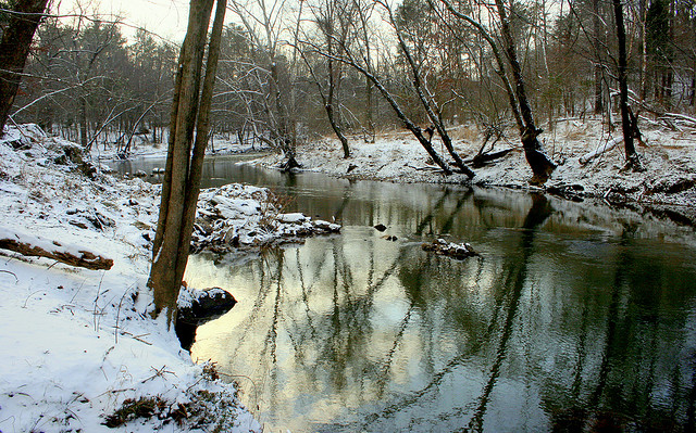 Eno River